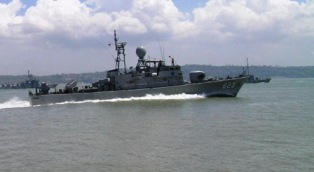 KRI Badik of the Indonesian Navy